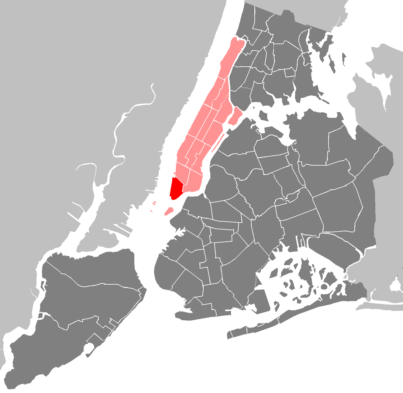 Maps of New York City: New York City - Manhattan - Lower Manhattan.PNG